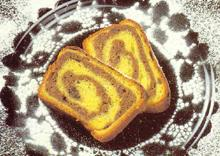 Orehnjača variation of Nut Roll.